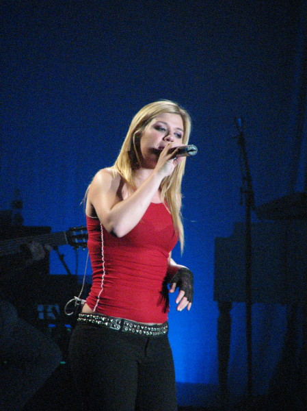 Kelly Clarkson AIS Arena, Canberra, 2005